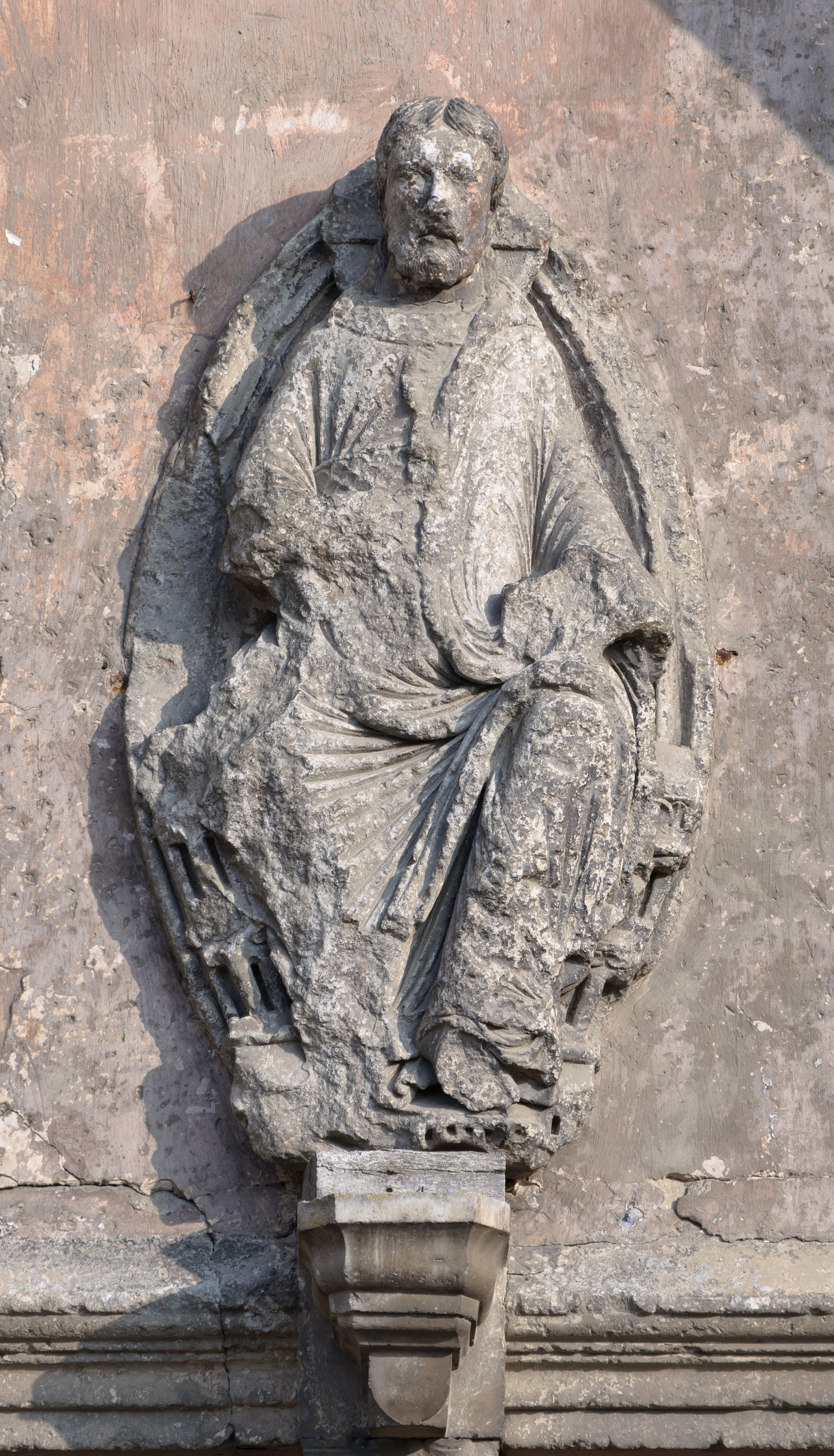 Provins, Seine-et-Marne, France : Christ in Majesty, 13th-century low relief coming from the former Saint-Thibault church, nowadays on the portal of the Saint Quiriace collegiate church.